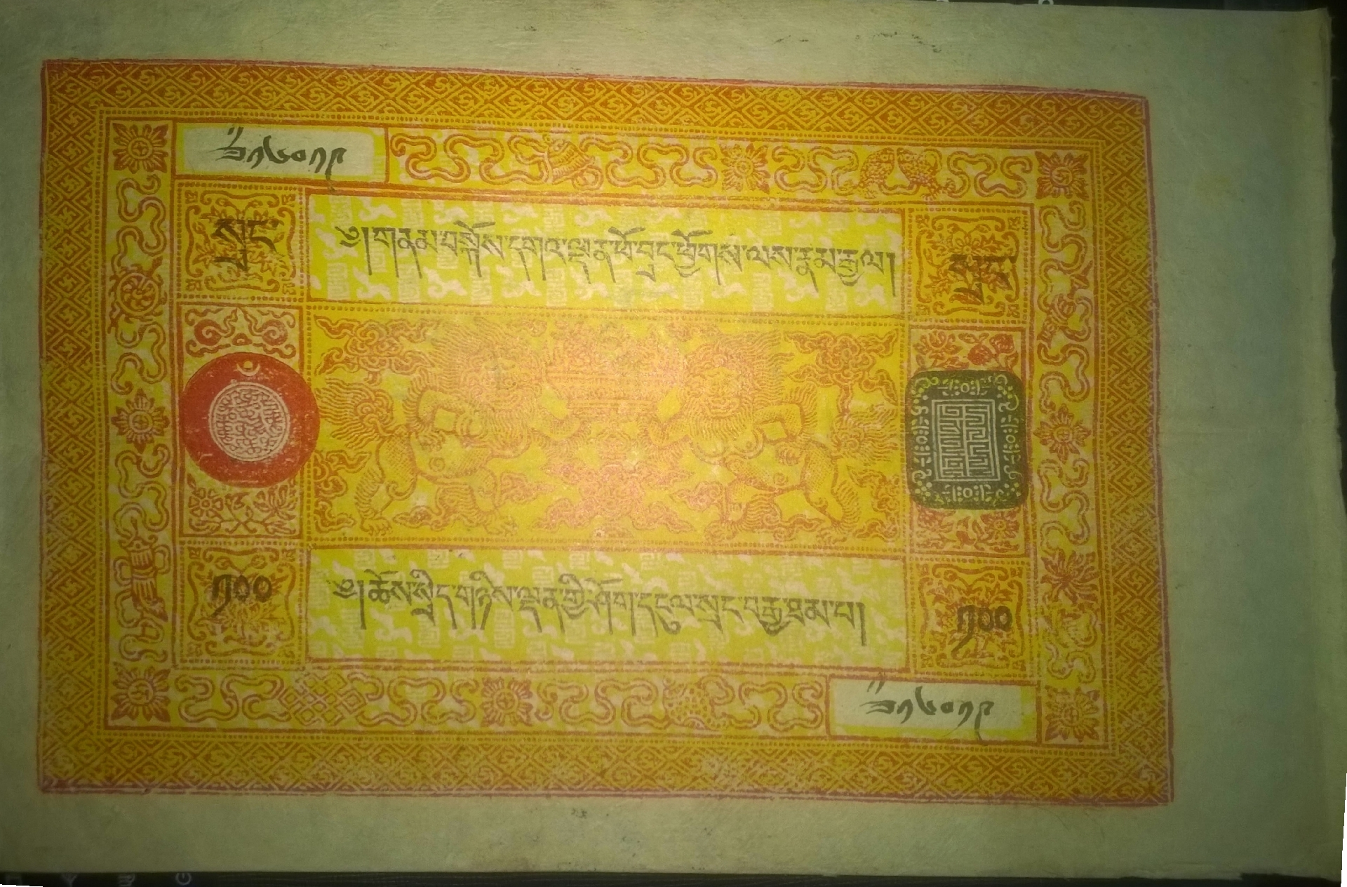 Tibetan Currency Use before 1959